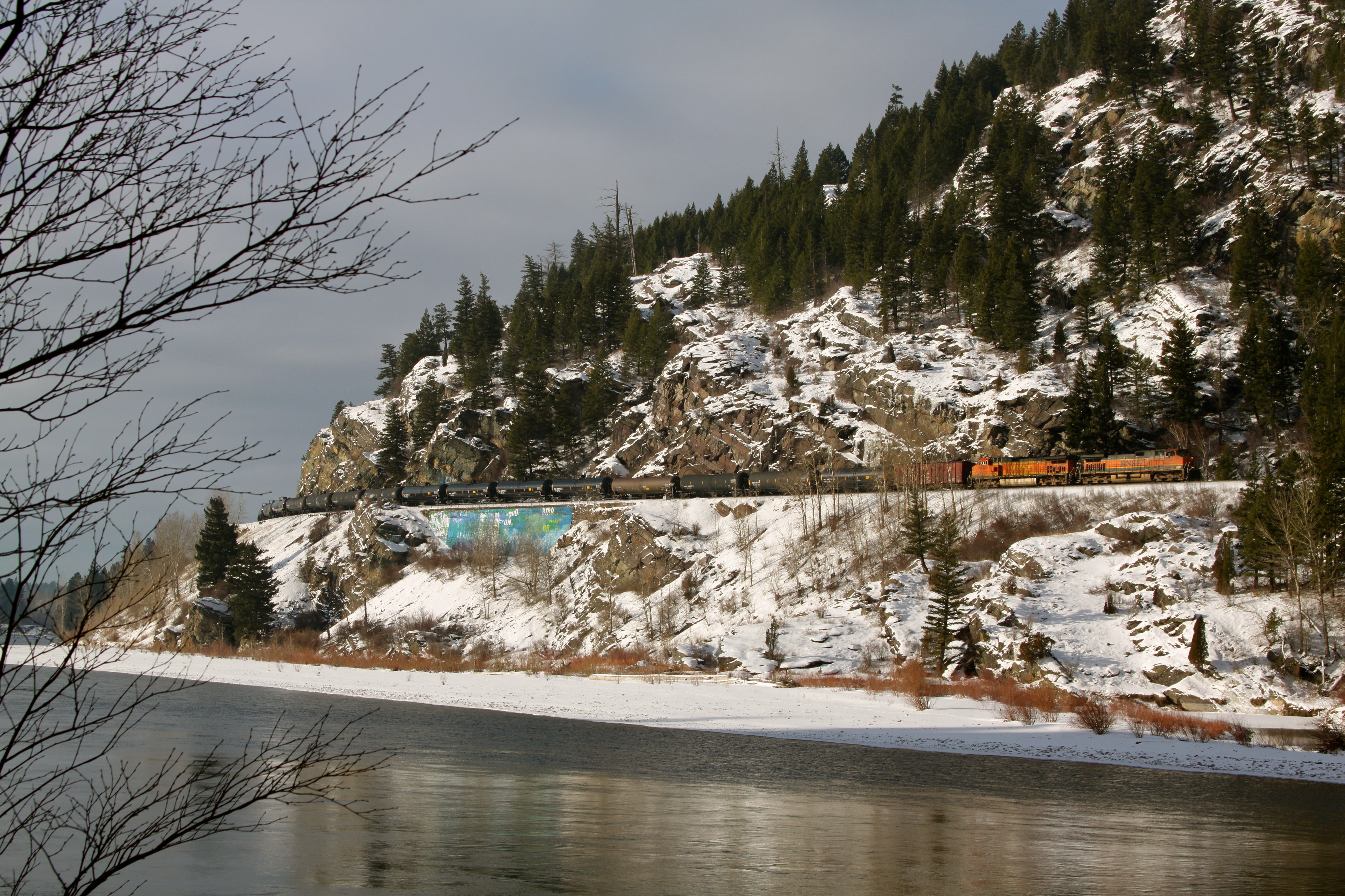 BNSF eastbound oil train in Bad Rock Canyon. Empties making the return trip to North Dakota for more Bakken oil. Near Columbia Falls MT